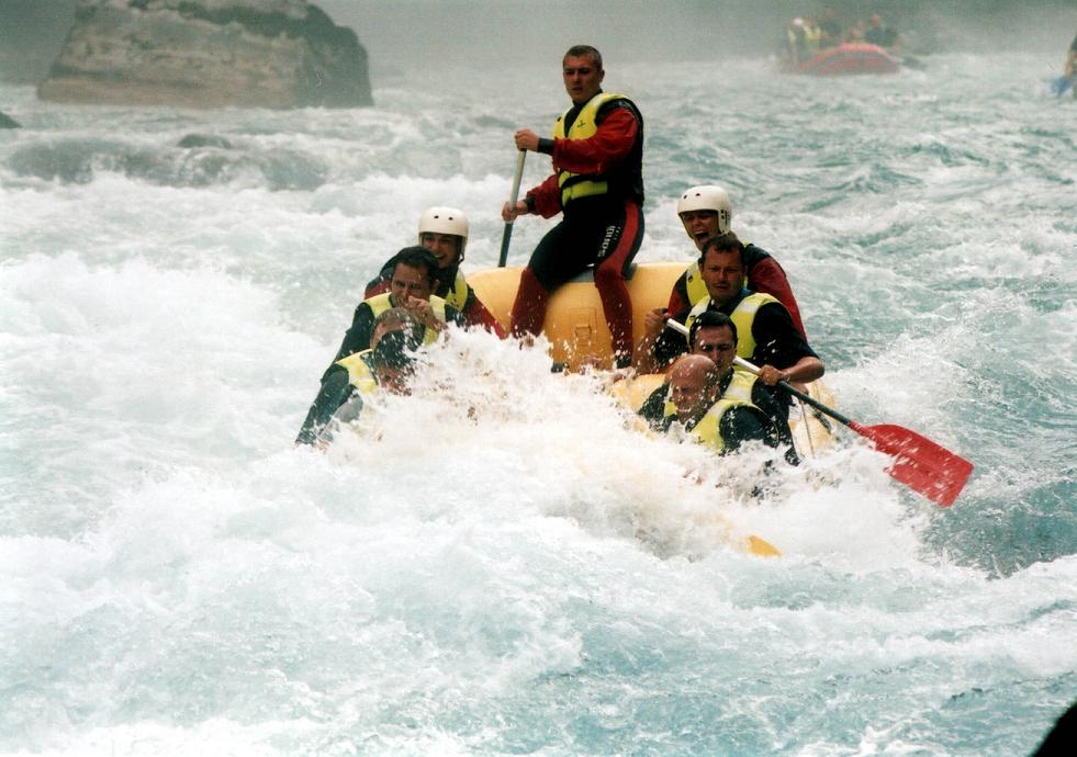 Tara River, 2006.